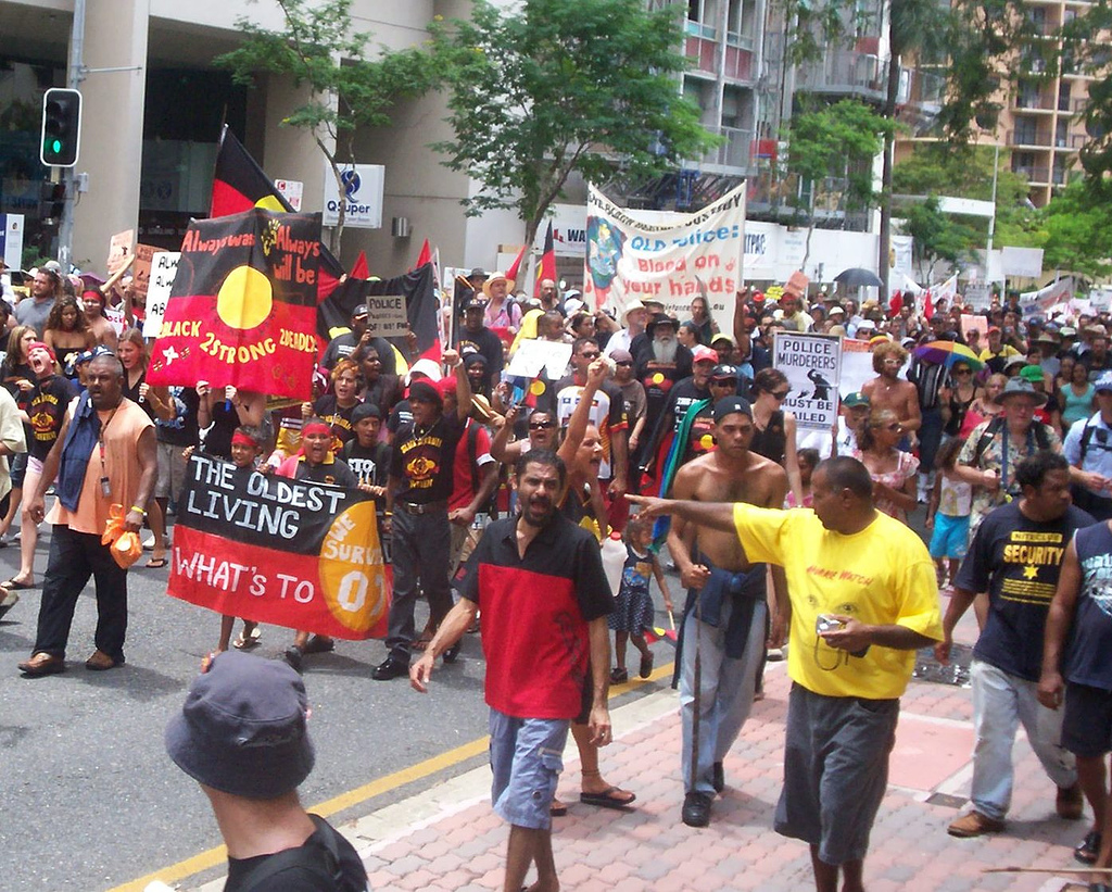 These pictures are from an article about the Invasion Day rally and march at Let's Take Over